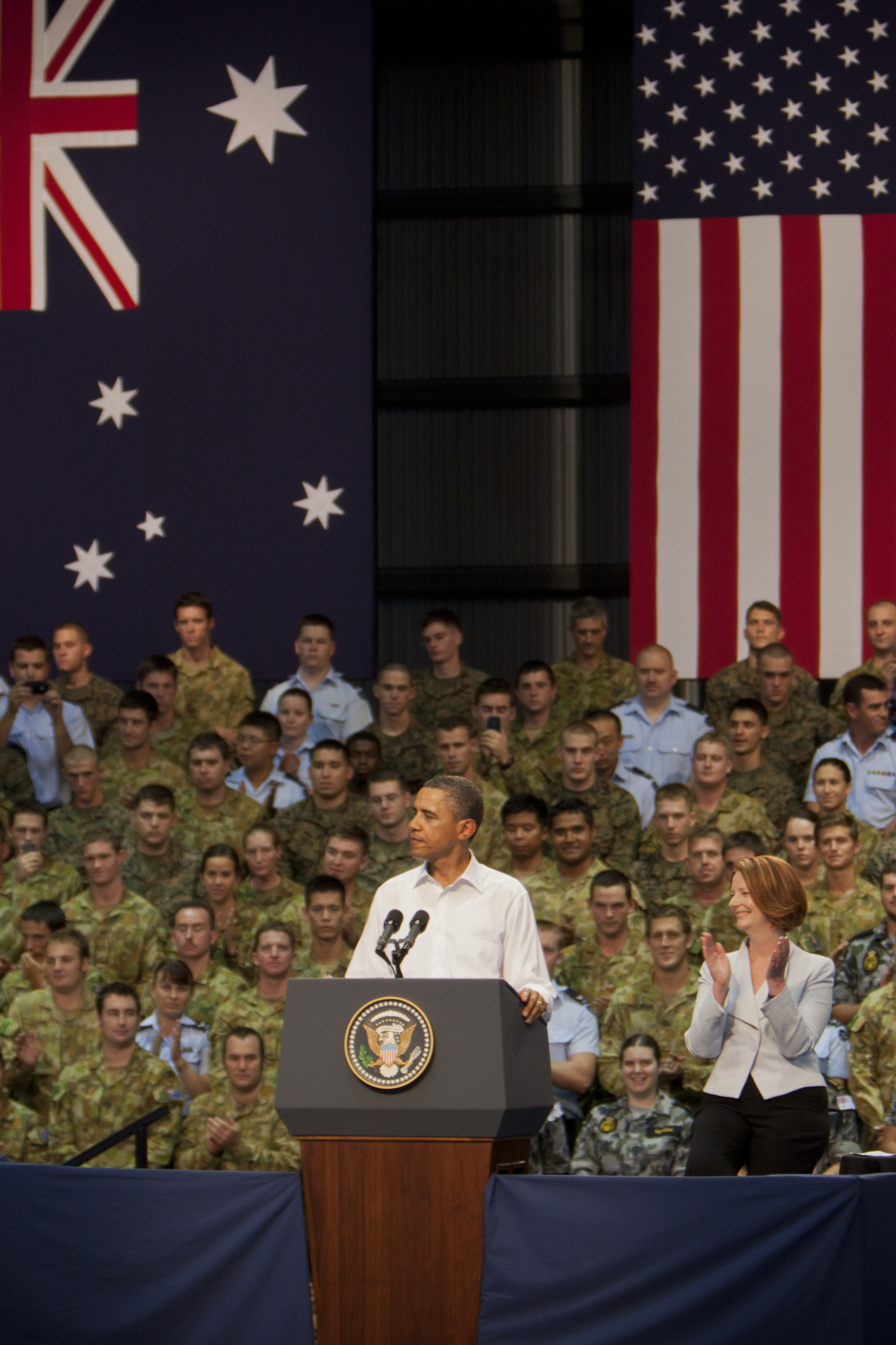 U.S. President Barack Obama and Australian Prime Minister Julia Gillard speak to honor 60 years of the U.S.-Australian alliance in Darwin, Australia, Nov. 17, 2011. U.S. Marines with 2nd Fleet Anti-terrorism Security Team out of Norfolk, Va., and Royal Australian Military service members were in attendance.